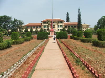 This is the main building of netarhat school.